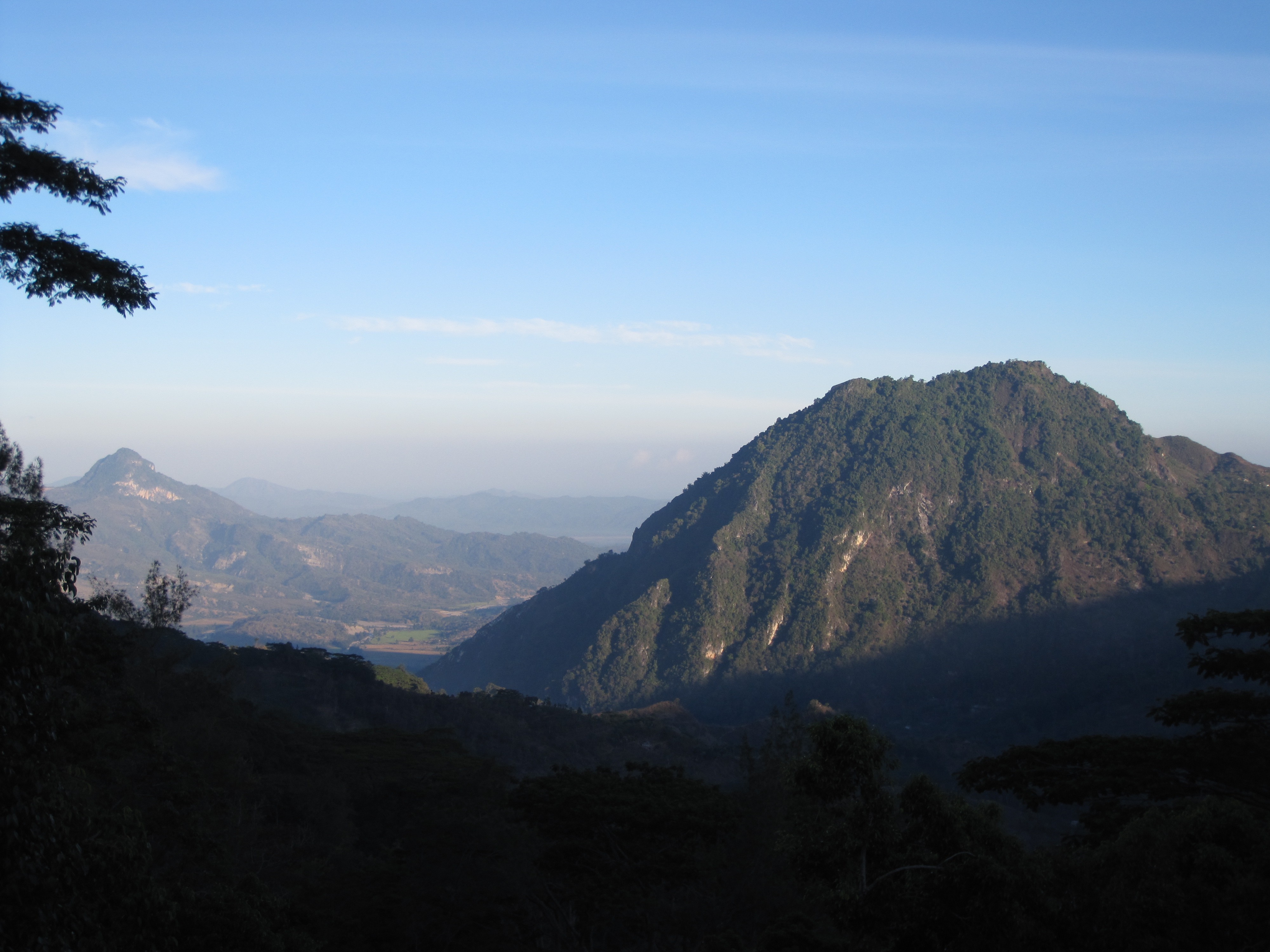 View from the guesthouse in Atsabe village, Ermera district